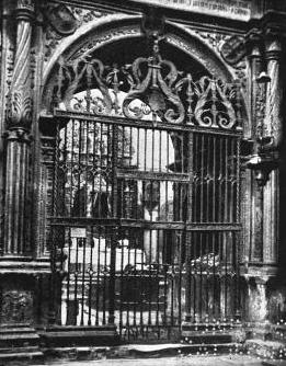 A reja from the Capilla de Santa Librada.